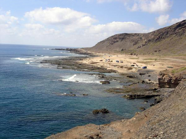 El Confital Beach. Las Palmas de Gran Canaria (Gran Canaria). Canary Islands, Spain.